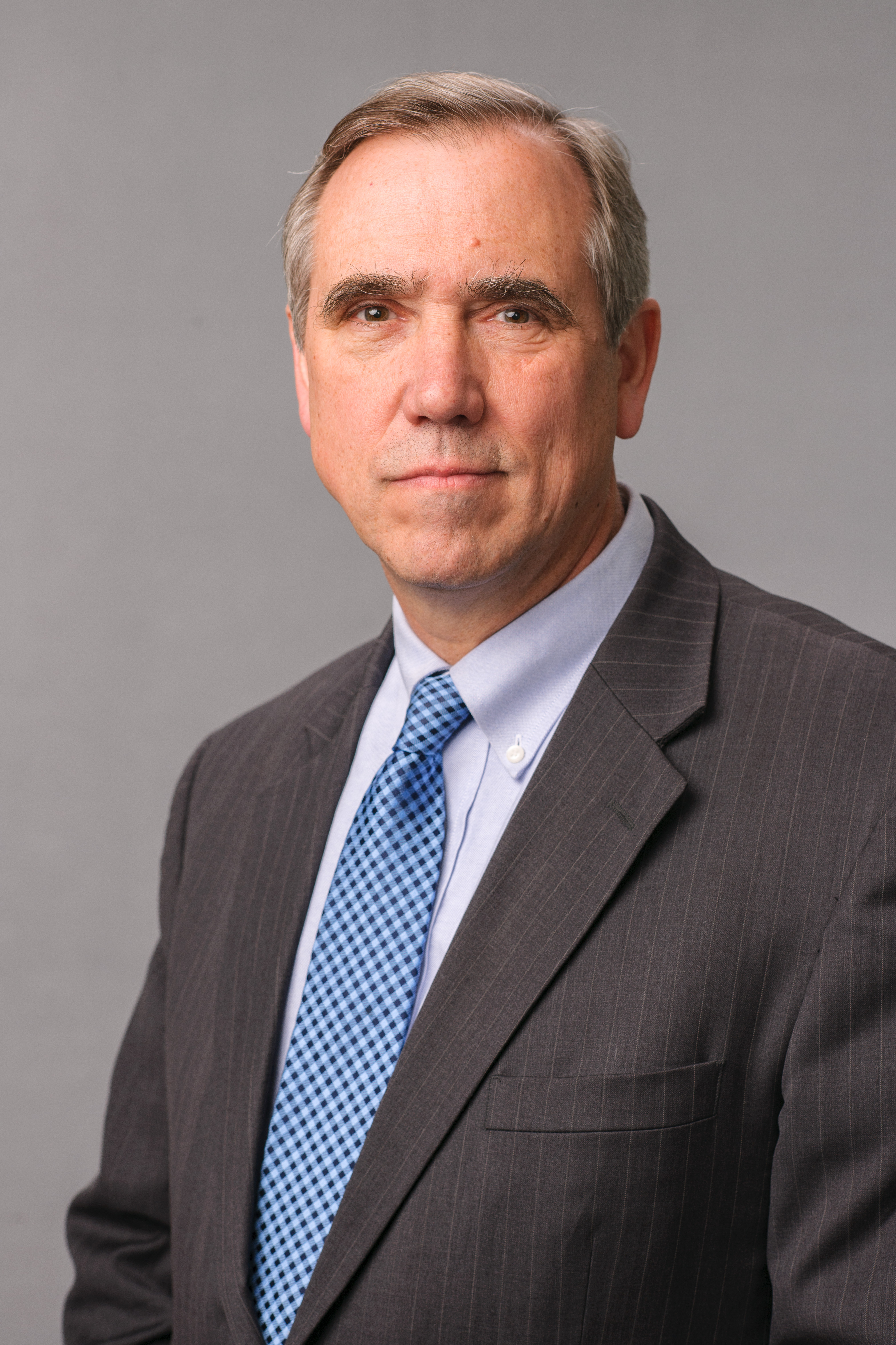 United States Senator Jeff Merkley's (D-OR), official 115th official Congress photo